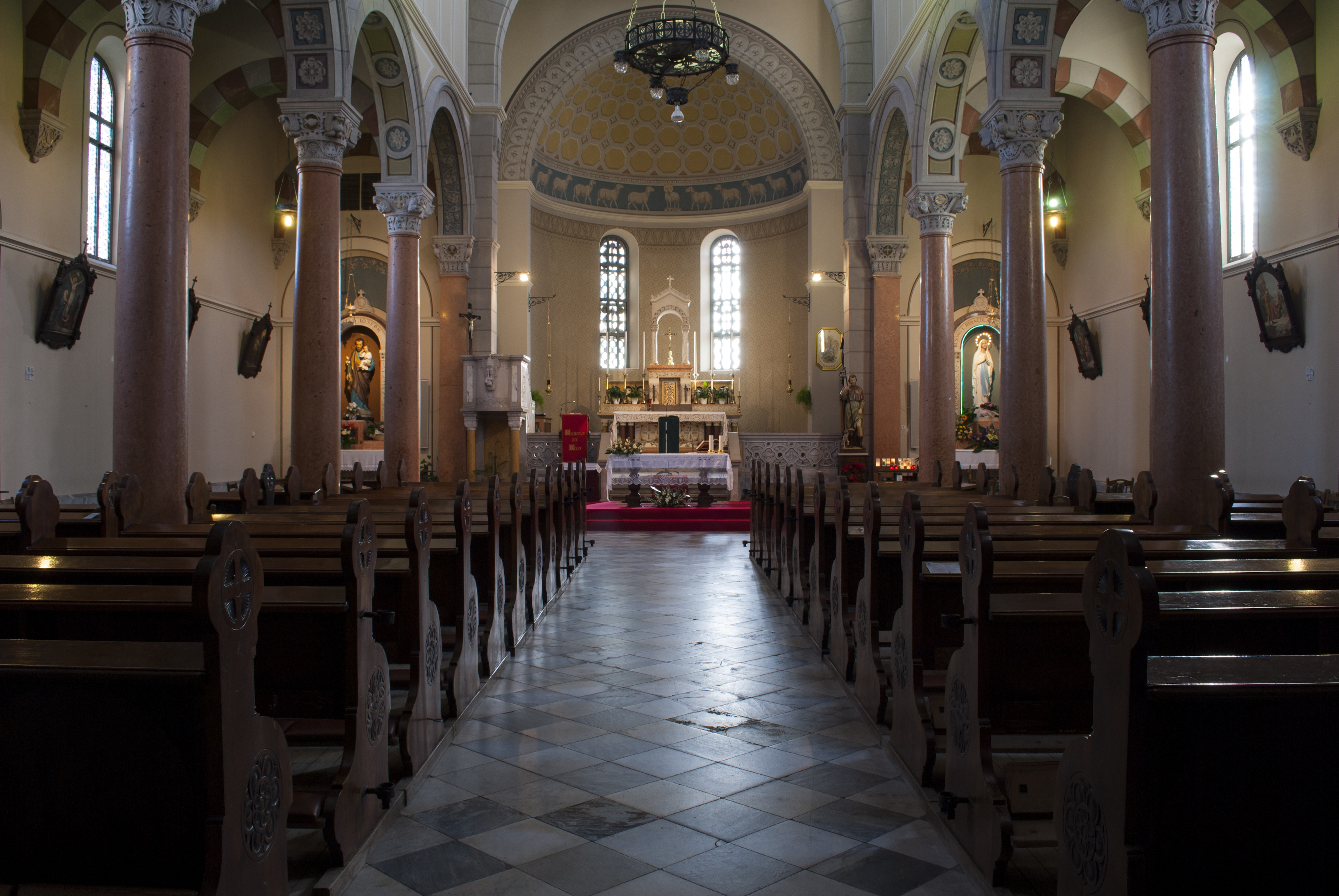 Internal view of Church San Giorgio Martire (Saint George, Gorizia.